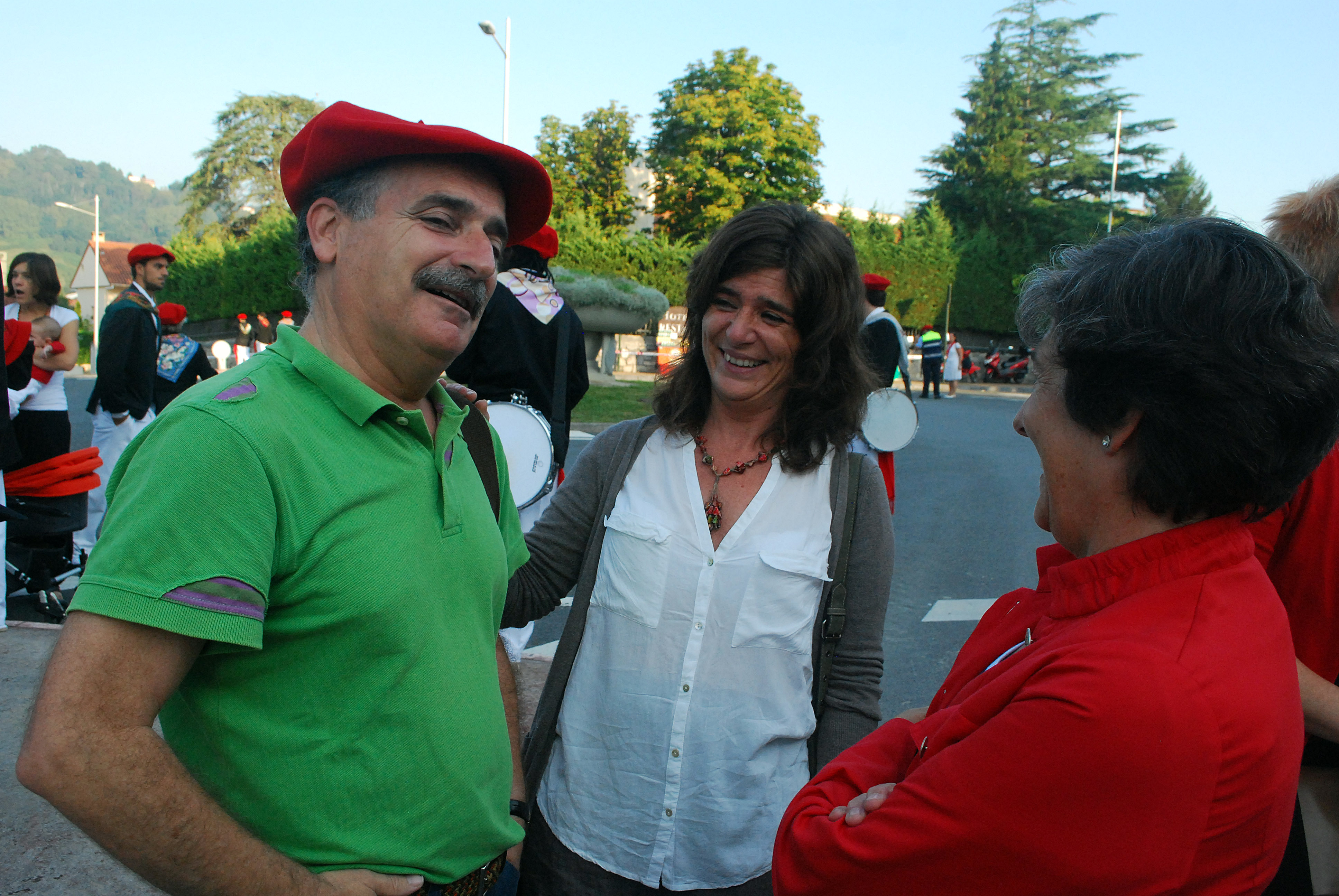 From left to right, Xabier Isasi, Helena Franco eta Laura Mintegi.